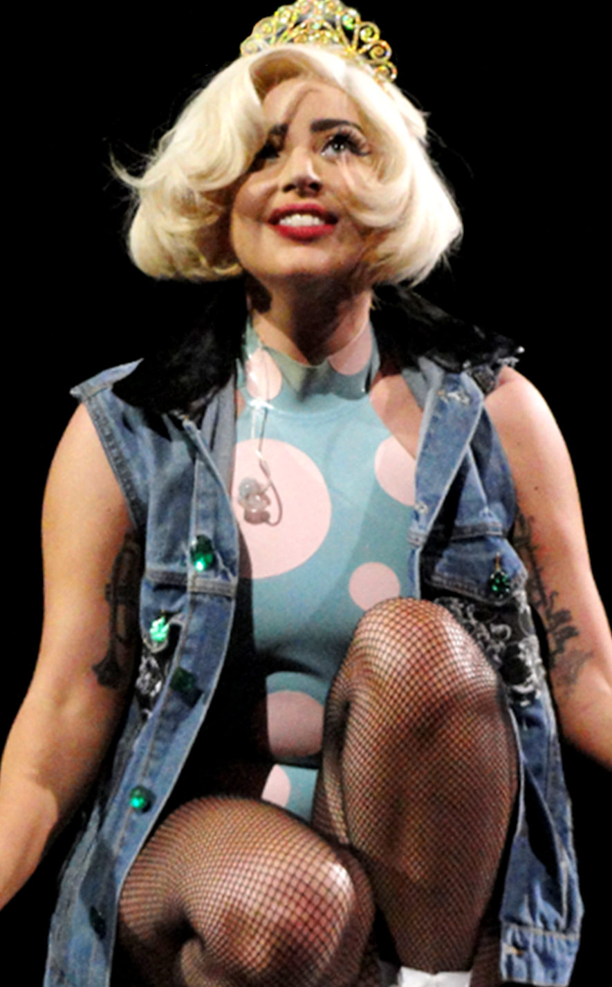 Lady Gaga at the ARTPOP Ball Tour in Seattle (cropped)